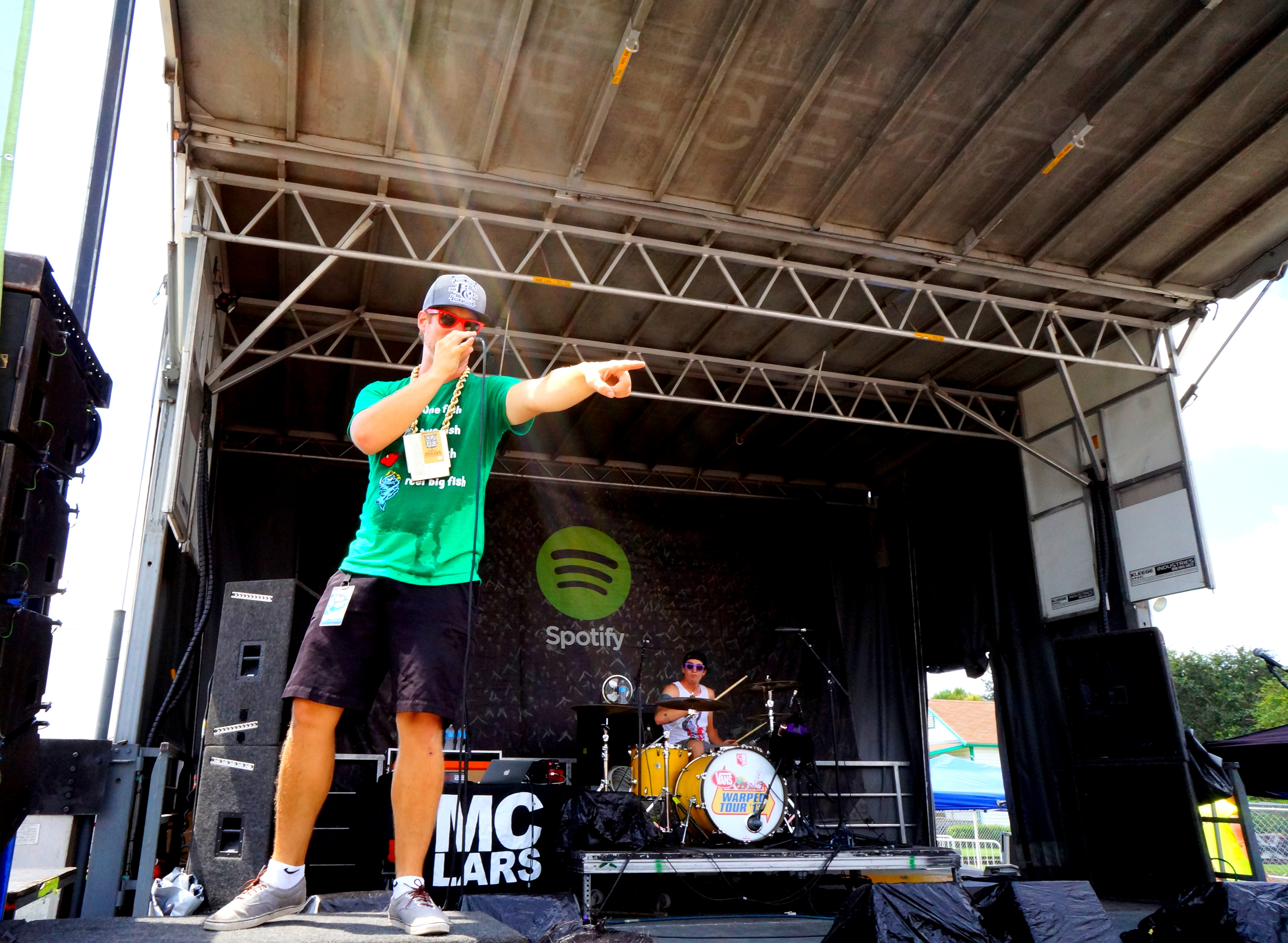 MC Lars at the Vans Warped Tour in West Palm Beach, Miami.